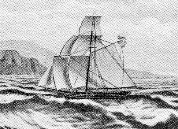 The Norwegian emigrant ship, Restauration.